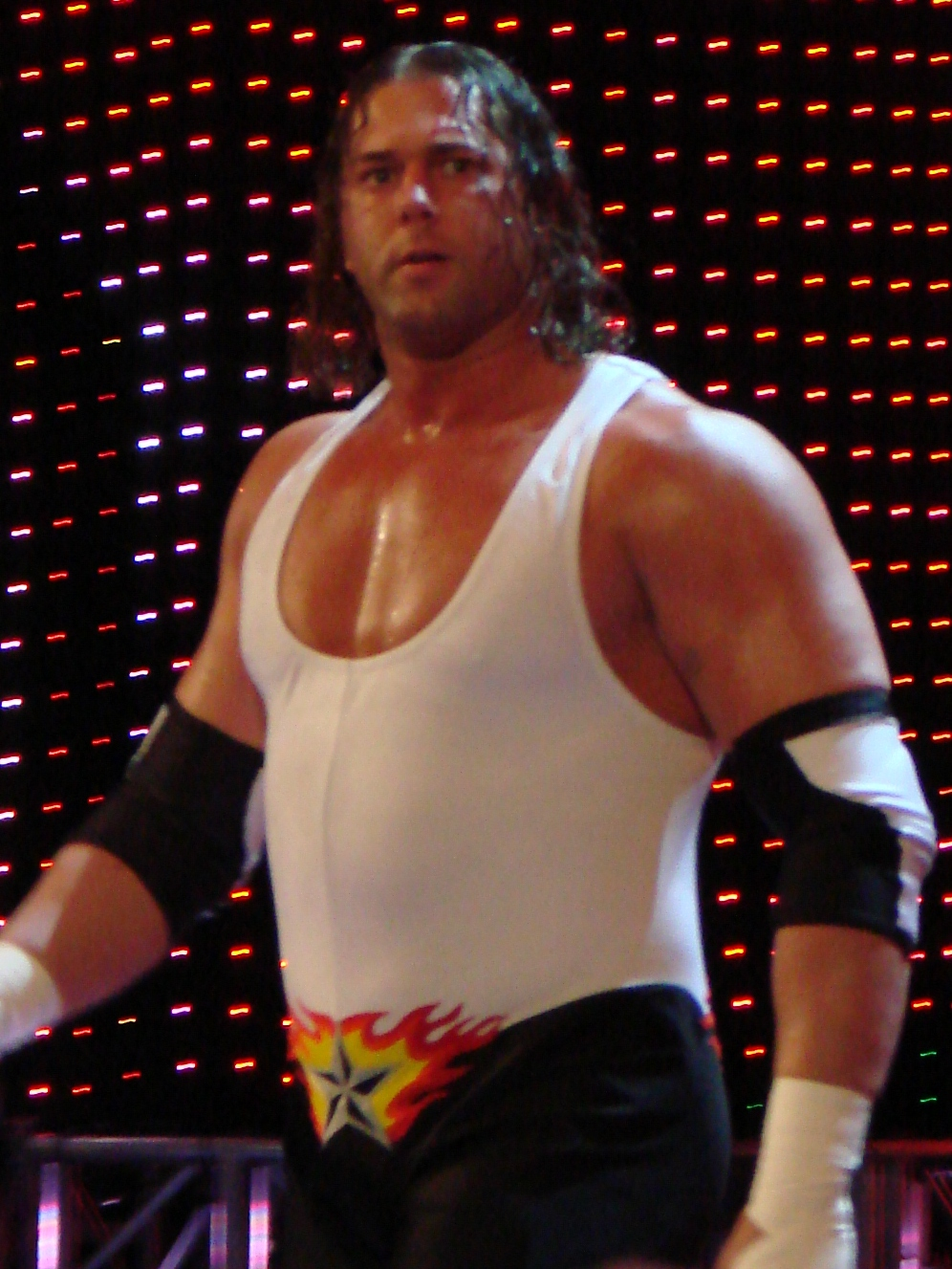 Chris Harris at WWE SmackDown. Allstate Arena, Rosemont, IL.